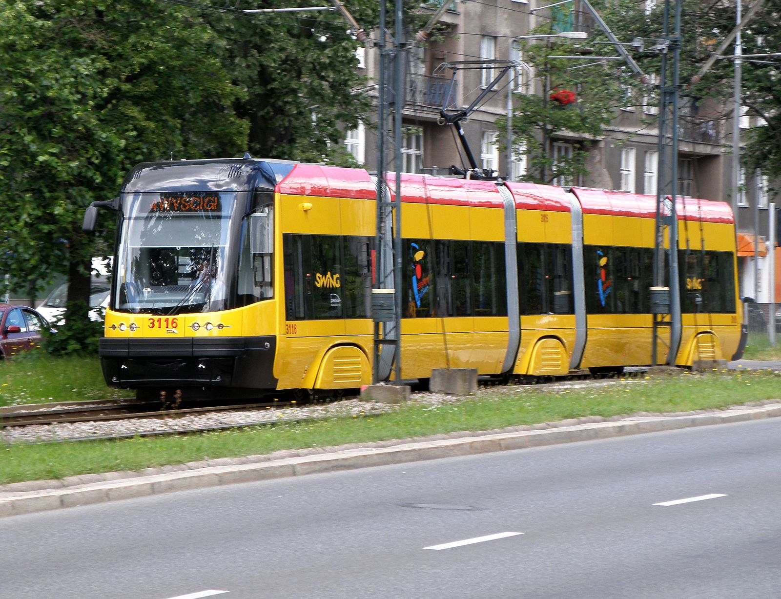 PESA type 120Na Swing tram (#3116, built 2010) on Puławska Street in Warsaw, Poland, line 4. Tramwaje Warszawskie operator.